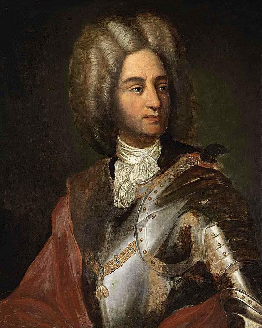 Portrait of Maximilian II Emanuel (1662-1726)